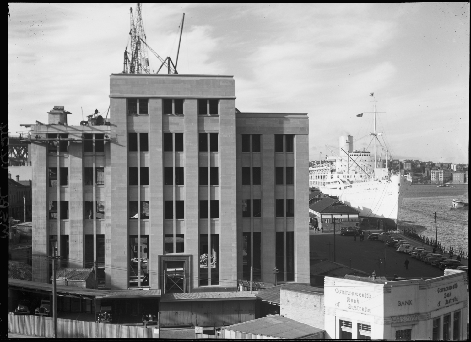 Title: SS HIMALAYA in Sydney Cove with the Ferry Sunris Star passing. The Maritime Services Board building can be seen under construction. Dated: year only 01/01/1949 Digital ID: Rights: No known copyright restrictions We'd love to if you use our photos/documents. Many other photos in our collection are available to view and browse on our website using